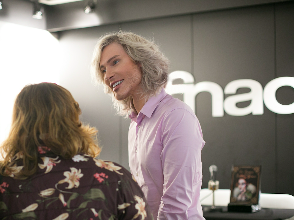 Tiago Azevedo at his book signing at FNAC, 2017